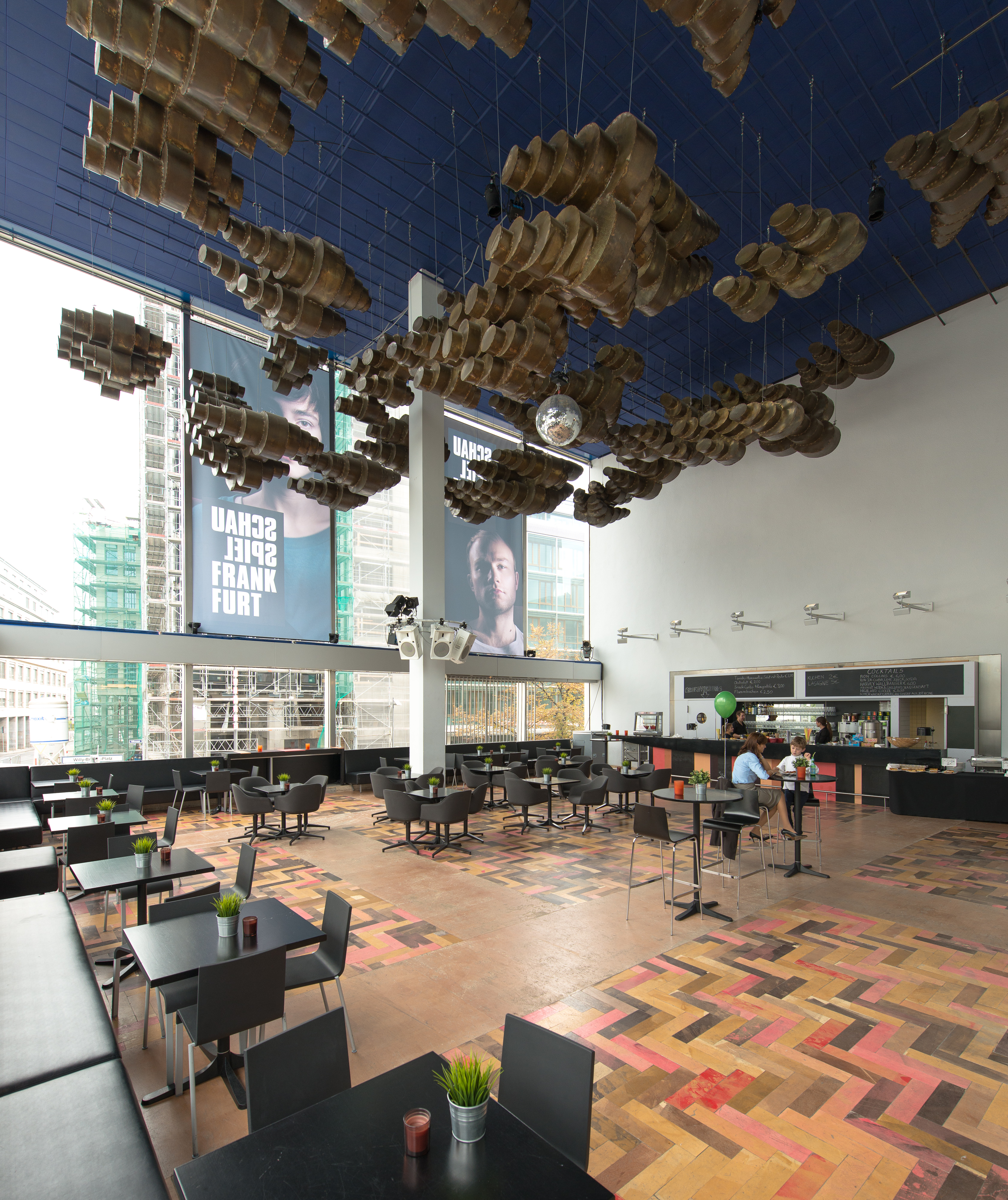 Frankfurt am Main, Opern- und Schauspielhaus Frankfurt, "Panorama Bar" in the theater lobby.